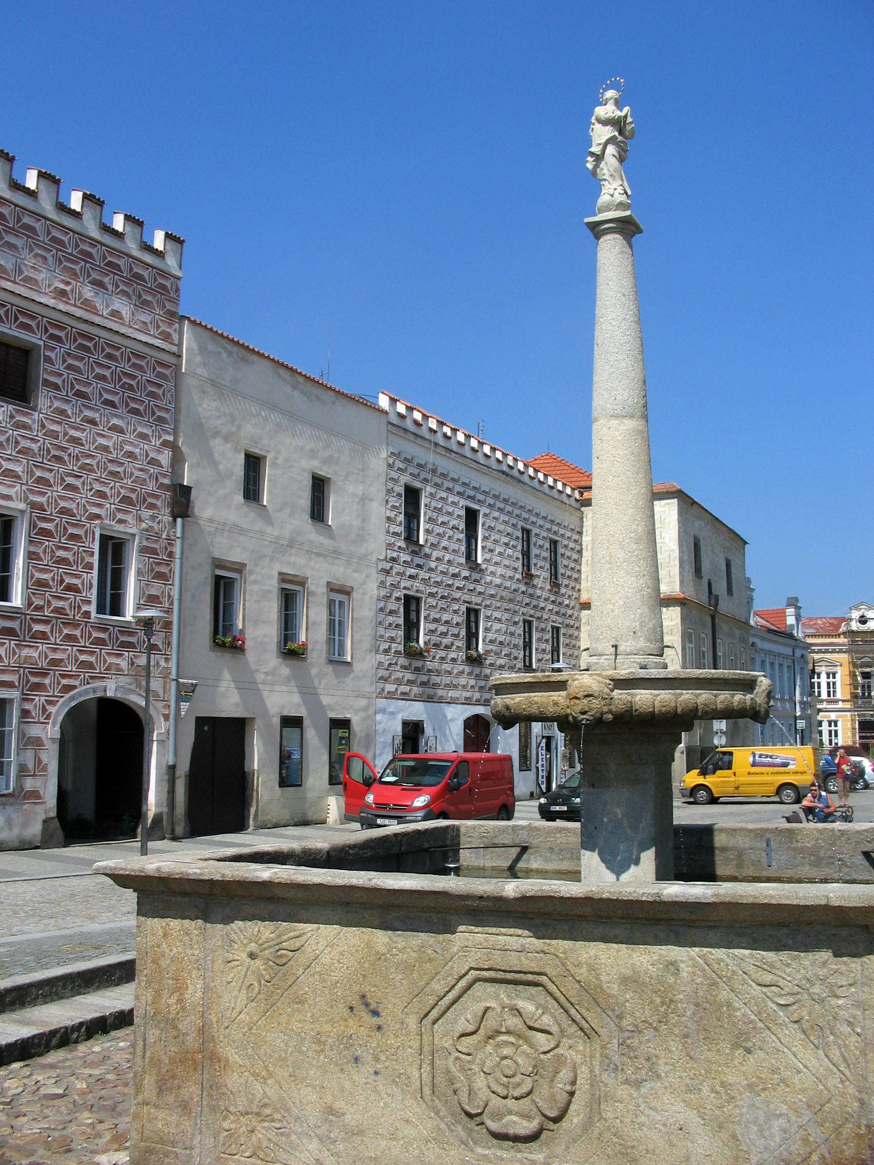 Slavonice square(Czech republic).